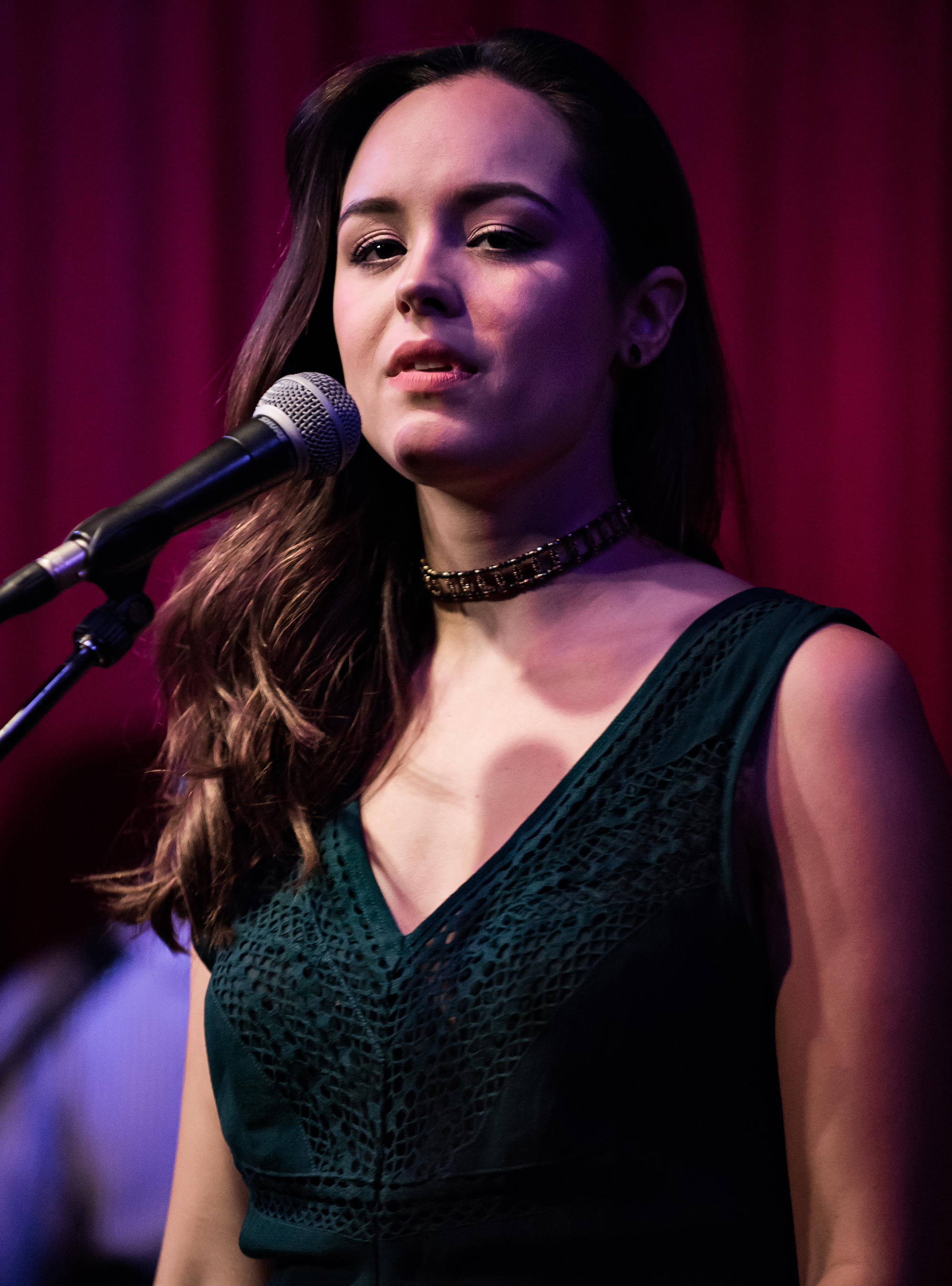 Hayley Orrantia performing live at the Hotel Cafe in Hollywood, Los Angeles, California, on Saturday, October 8th, 2016.